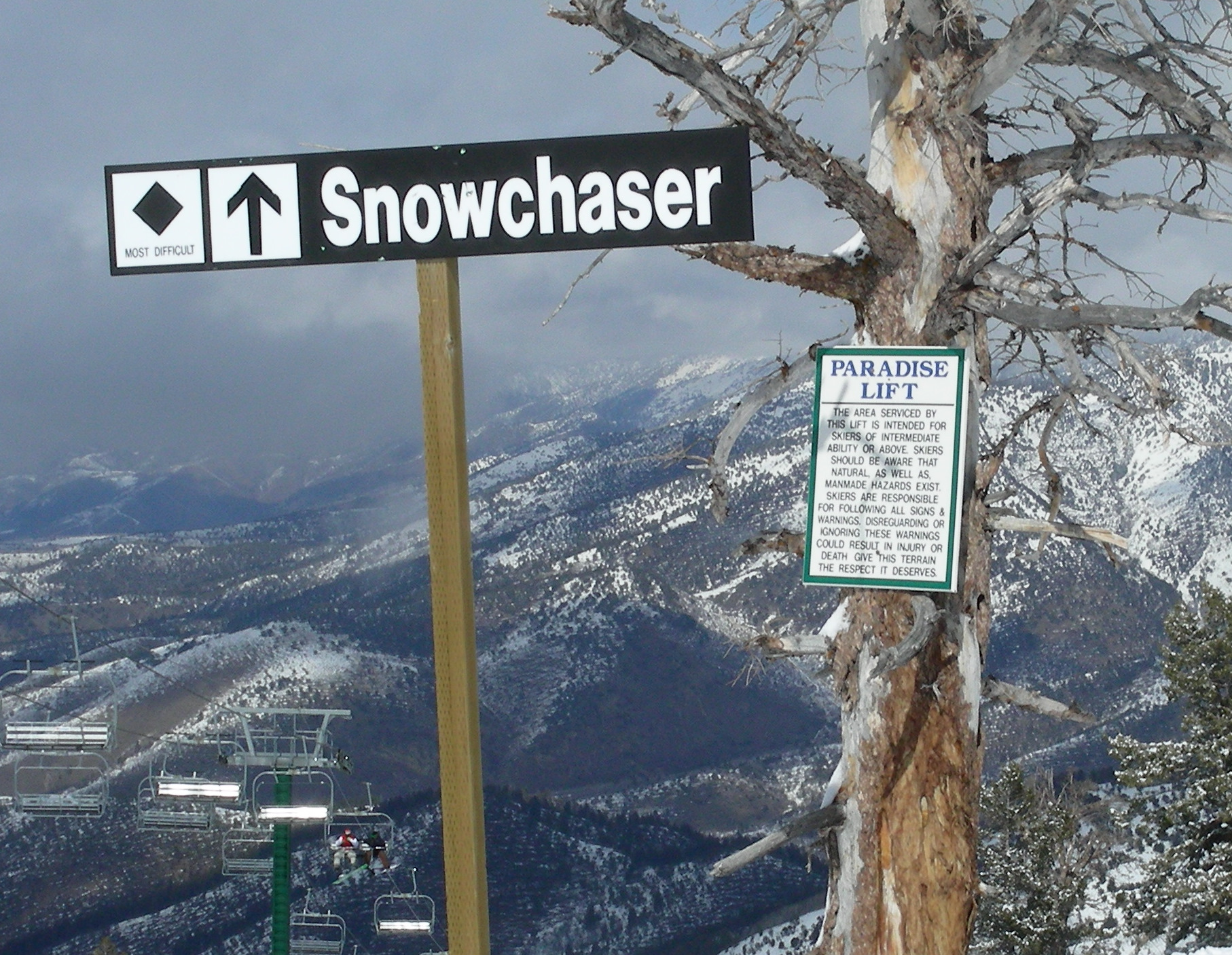 Black diamond run Snowchaser at Powder Mountain ski resort